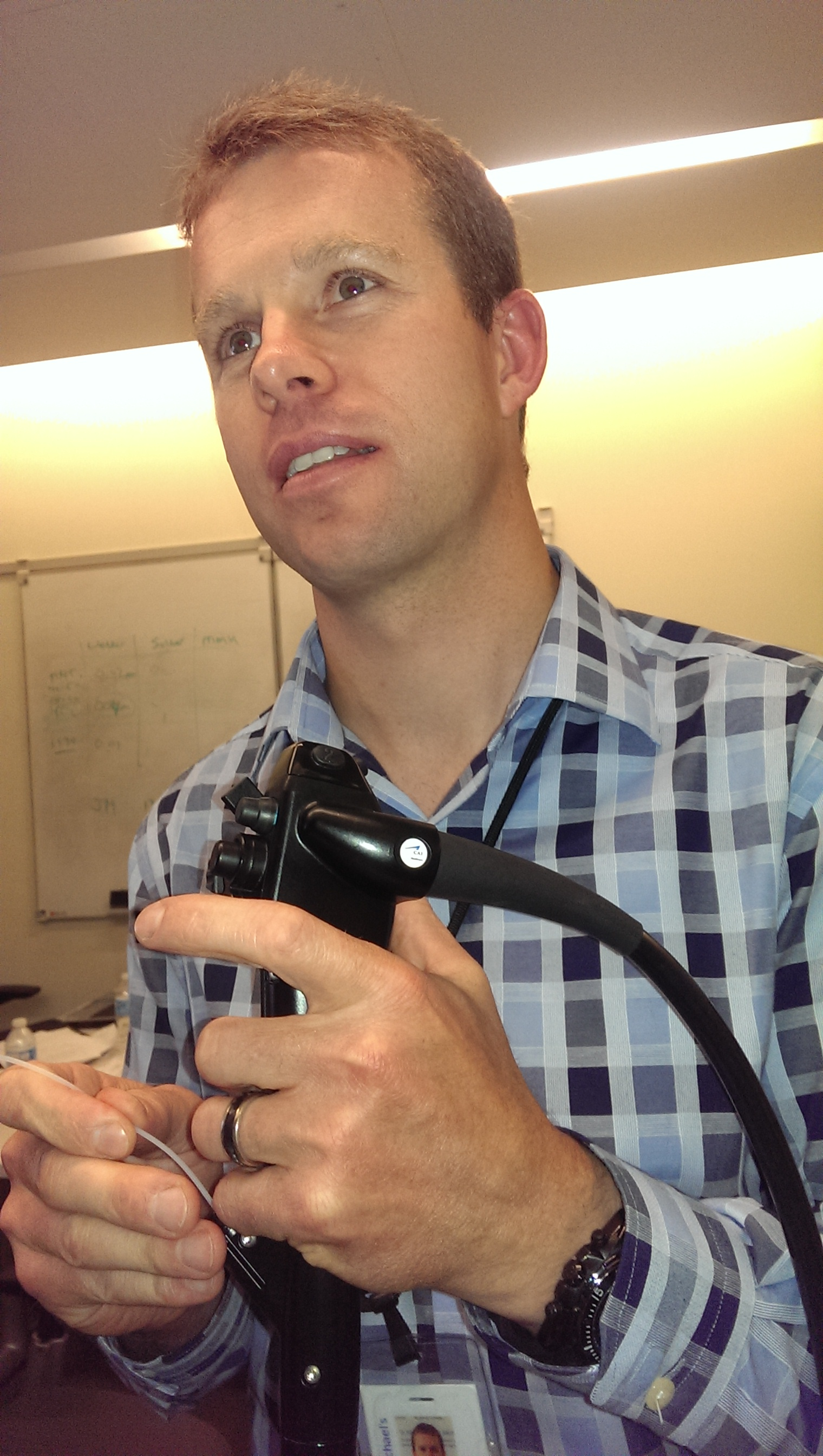 Image of Gordon Jewett, Olympian, at University of Toronto